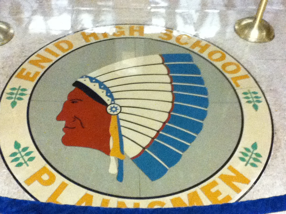 The Enid High School Plainsmen school seal.